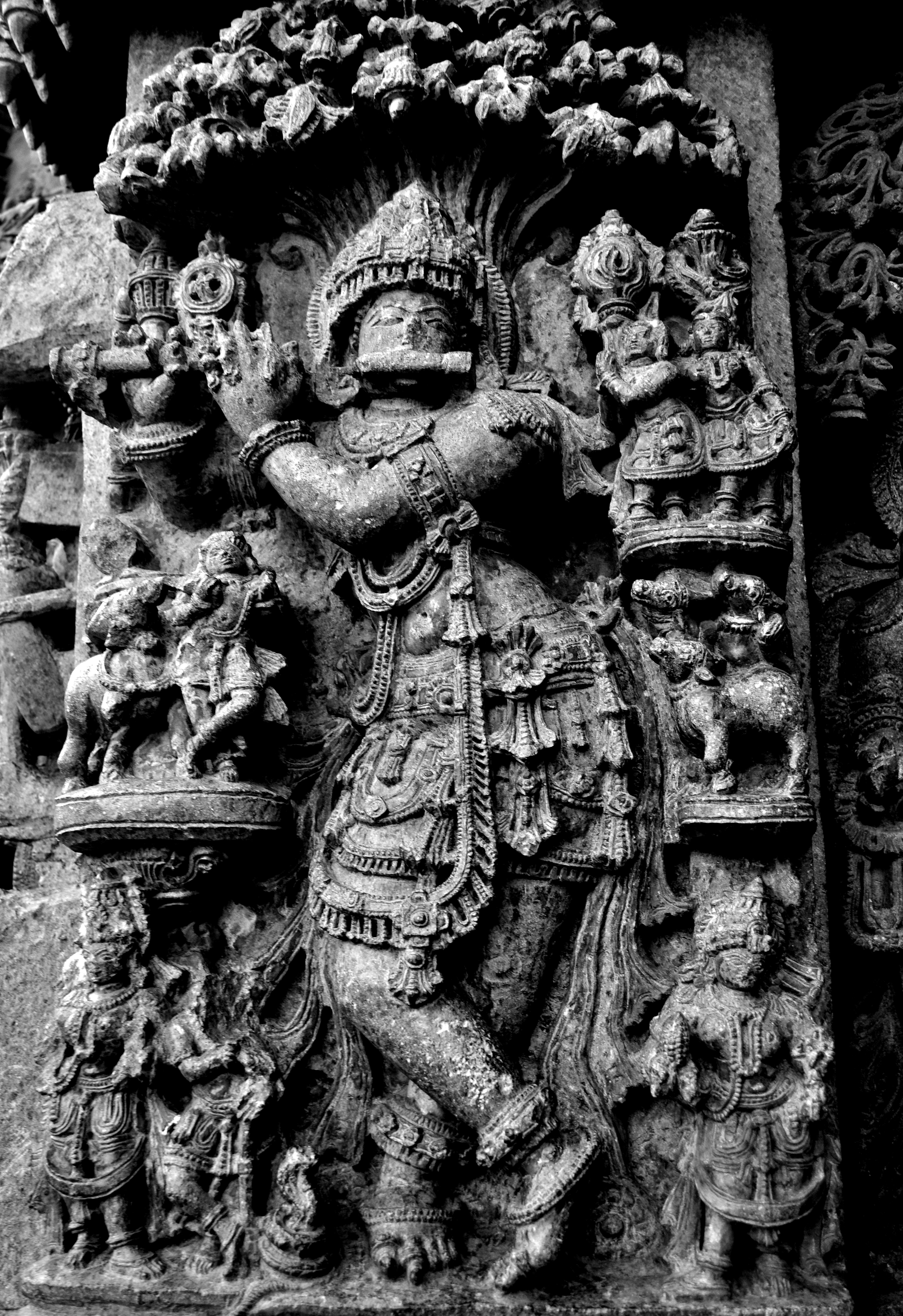 Krishna Statue, Somnathpur